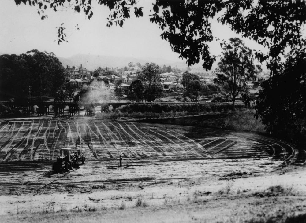 Moorland Park in Auchenflower, Brisbane, in 1948 Development of Moorland Park with Patrick Lane in background. (Description supplied with photograph) Moorlands was built in 1892 for the Mayne family, replacing an earlier timber residence on the site which was known as Moorlands Villa. Mary Mayne, the widow of Patrick Mayne, had purchased the earlier house and almost six hectares of land in 1878. Mrs Mayne and her five children lived in Moorlands Villa until her death in September 1889. The new house was designed by architect Richard Gailey and remained the property of the Mayne family until 1940 when it was bequeathed to the University of Queensland.